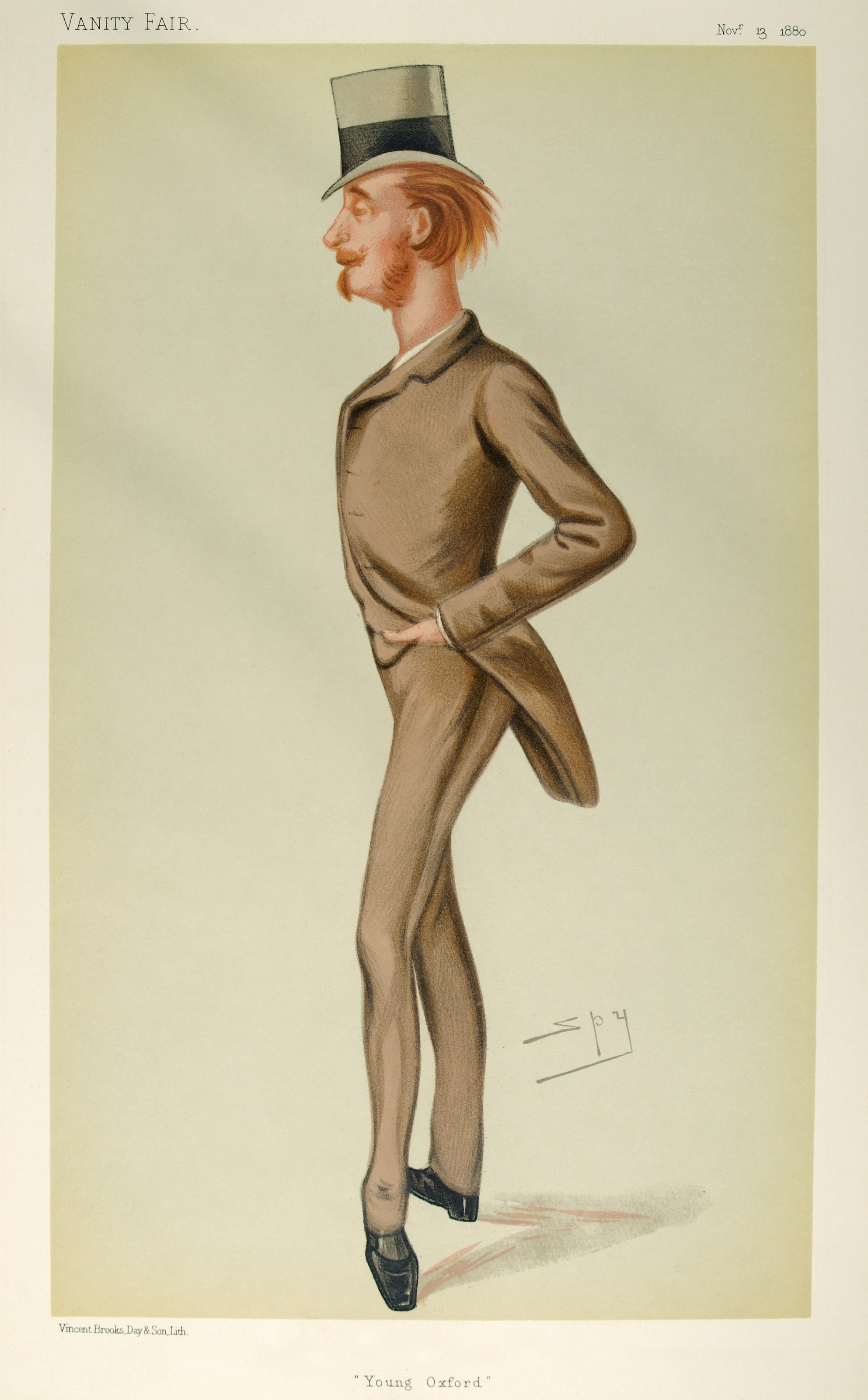 Statesmen No.346: Caricature of Viscount Lymington MP. Caption reads: "Young Oxford"